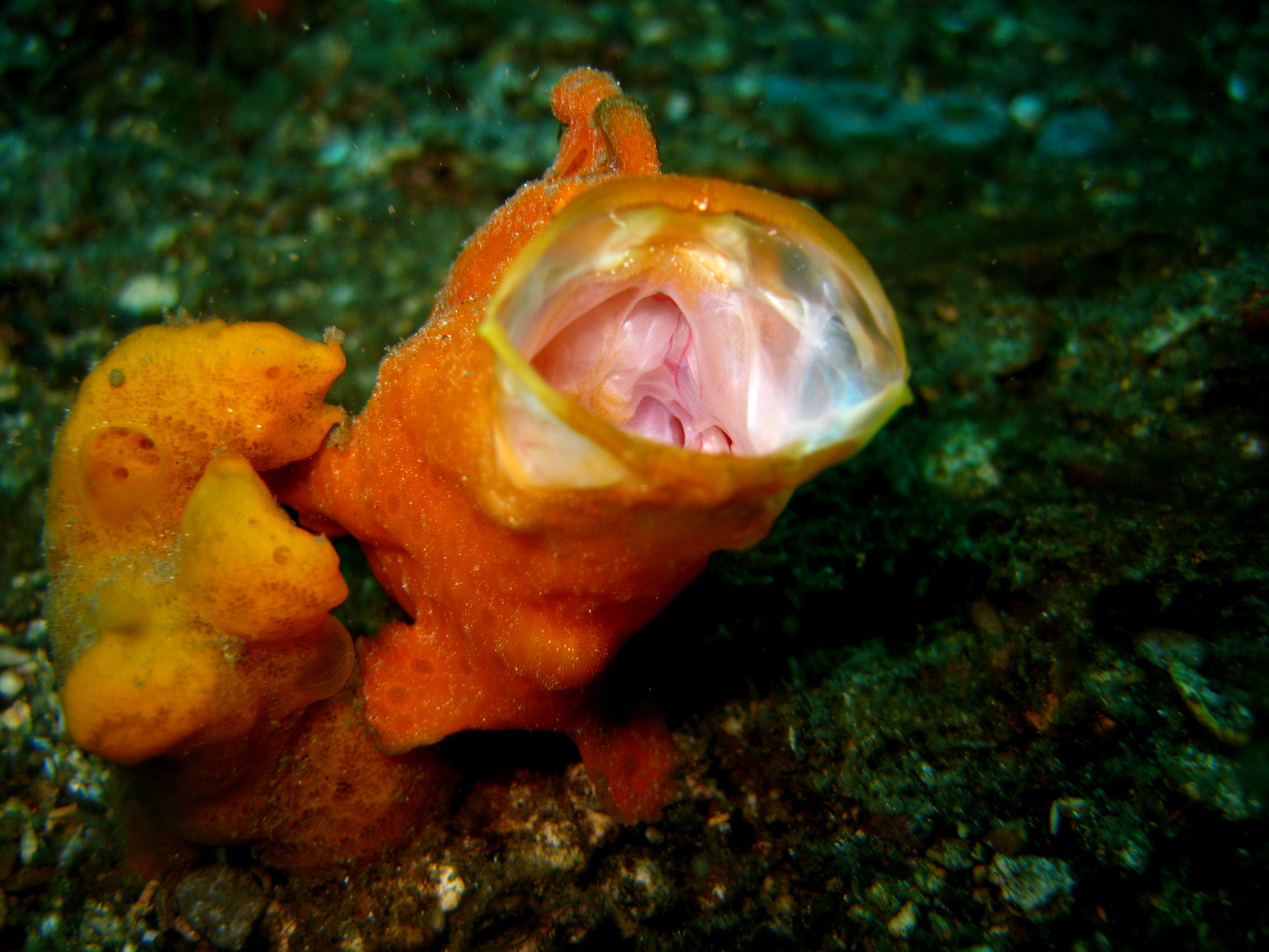 Painted FrogFish (Antennarius pictus) yawning